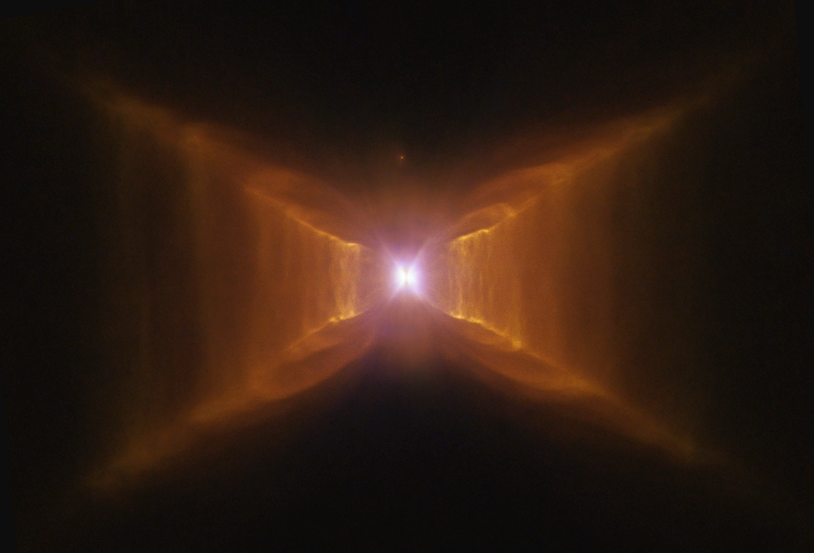 Perplexing, enigmatic and astonishing--no single word captures the essence of the Red Rectangle. This series of images from a simulation of the Red Rectangle helped me to better understand its structure. I tried to show the torus of dust obscuring the central binary star system. The center is very bright and it's easy to lose that detail, which looks like a darker vertical line crossing the center in this image. In order to do this I applied the luminosity of the very central region of the F658N data to the other two channels since it shows up most clearly there. I also very carefully removed diffraction spikes by selectively reducing their curves rather than other methods such as cloning which I feel more greatly compromises the object's integrity. Red: HST_10851_01_ACS_HRC_F658N_sci Green: HST_10851_01_ACS_HRC_F625W_sci Blue: hst_07297_01_wfpc2_f467m_pc_sci North is NOT up.